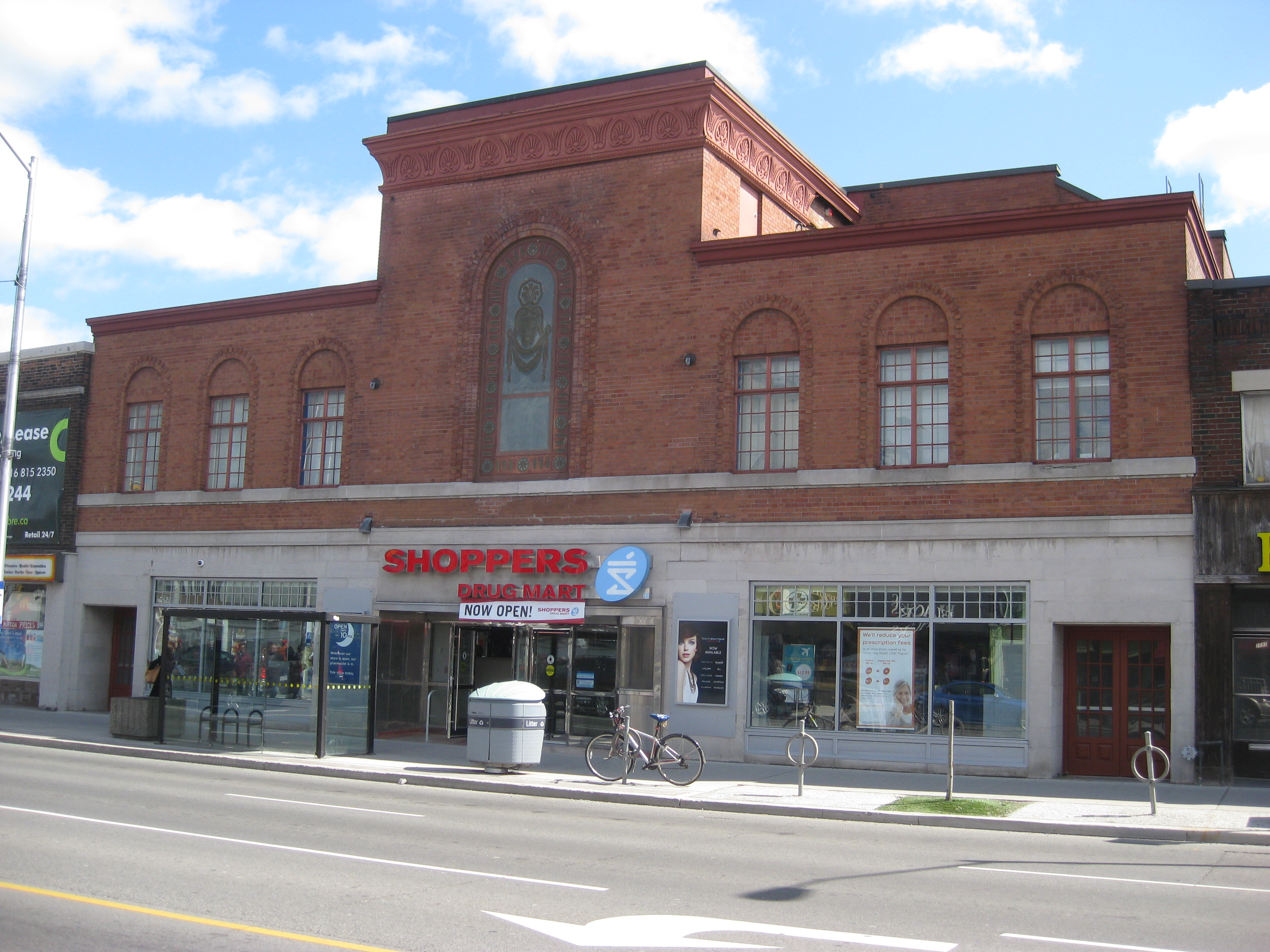 The Runnymede Theatre in Toronto, Canada, about a week after it opened as a Shoppers Drug Mart.